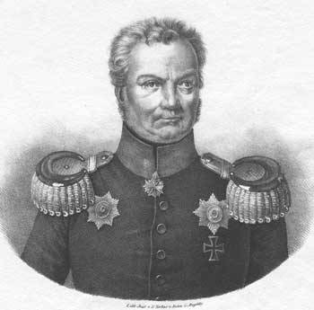 Karl von Grolmann